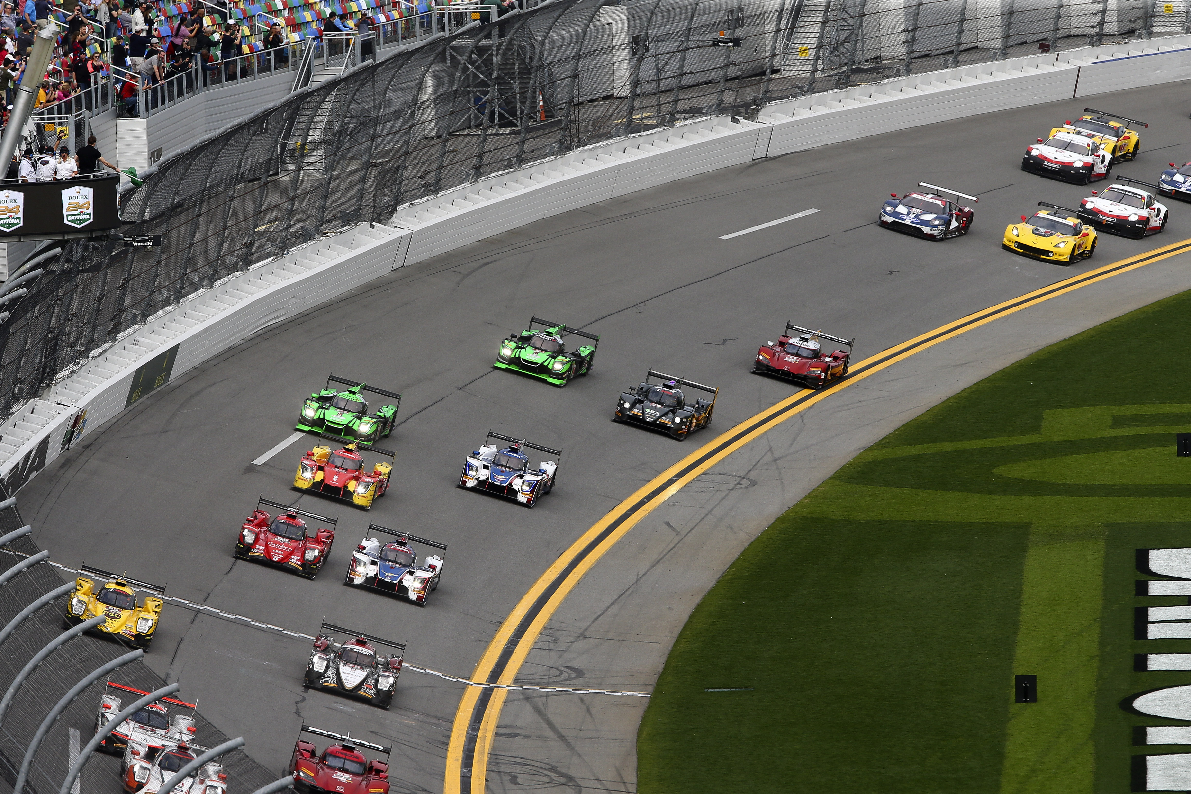 2018 24 Hours of Daytona - Starting